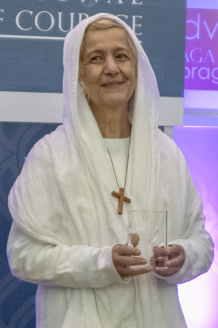 U.S. Secretary of State Michael R. Pompeo and First Lady of the United States Melania Trump present Mama Maggie from Egypt with the 2019 International Women of Courage (IWOC) Award during the ceremony at the U.S. Department of State in Washington, D.C., on March 7, 2019. [State Department photo by Ron Pryzsucha/ Public Domain]